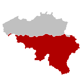 Wallonia